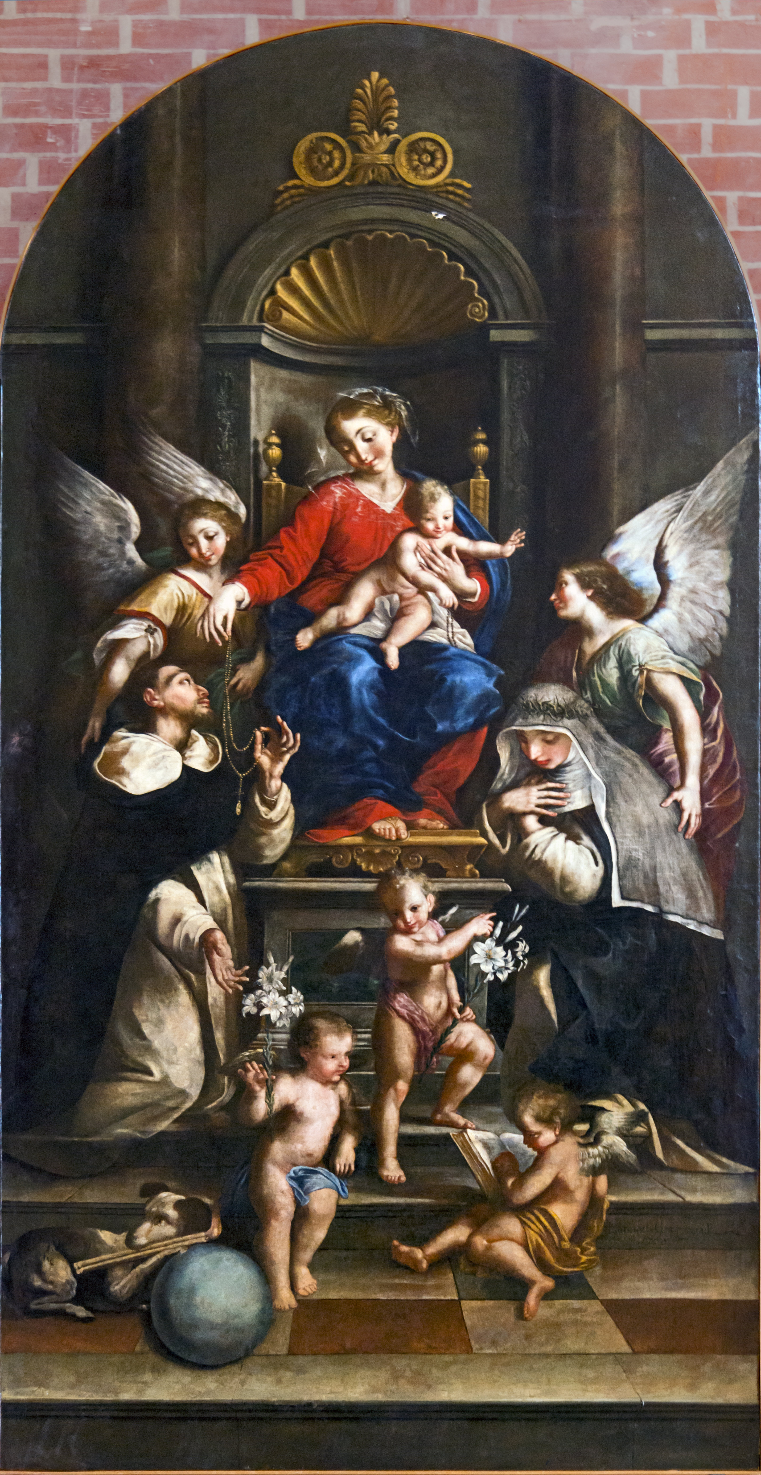 Santi Giovanni e Paolo in Venice. Trinity Chapel – St Dominic receiving the Rosary with Catherine of Siena by Gramiccia Lorenzo.